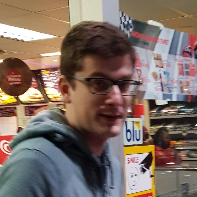 This file represents Michael Laing Sr, in his heyday, in a mall.